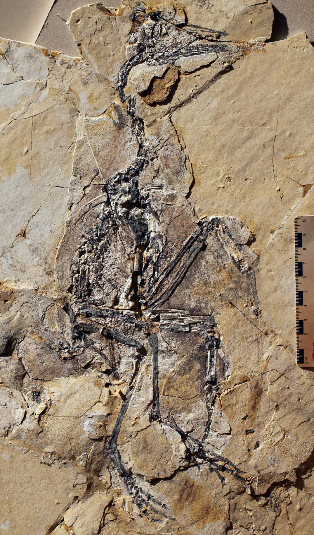 Photograph of Yanornis STM9-52.